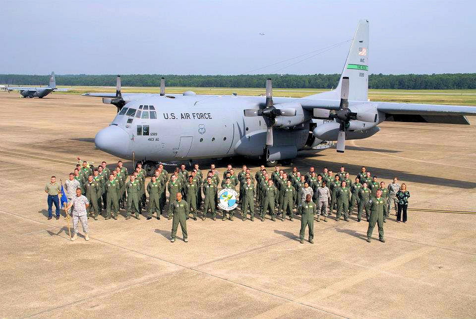 61st Airlift Squadron C-130 and personnel.